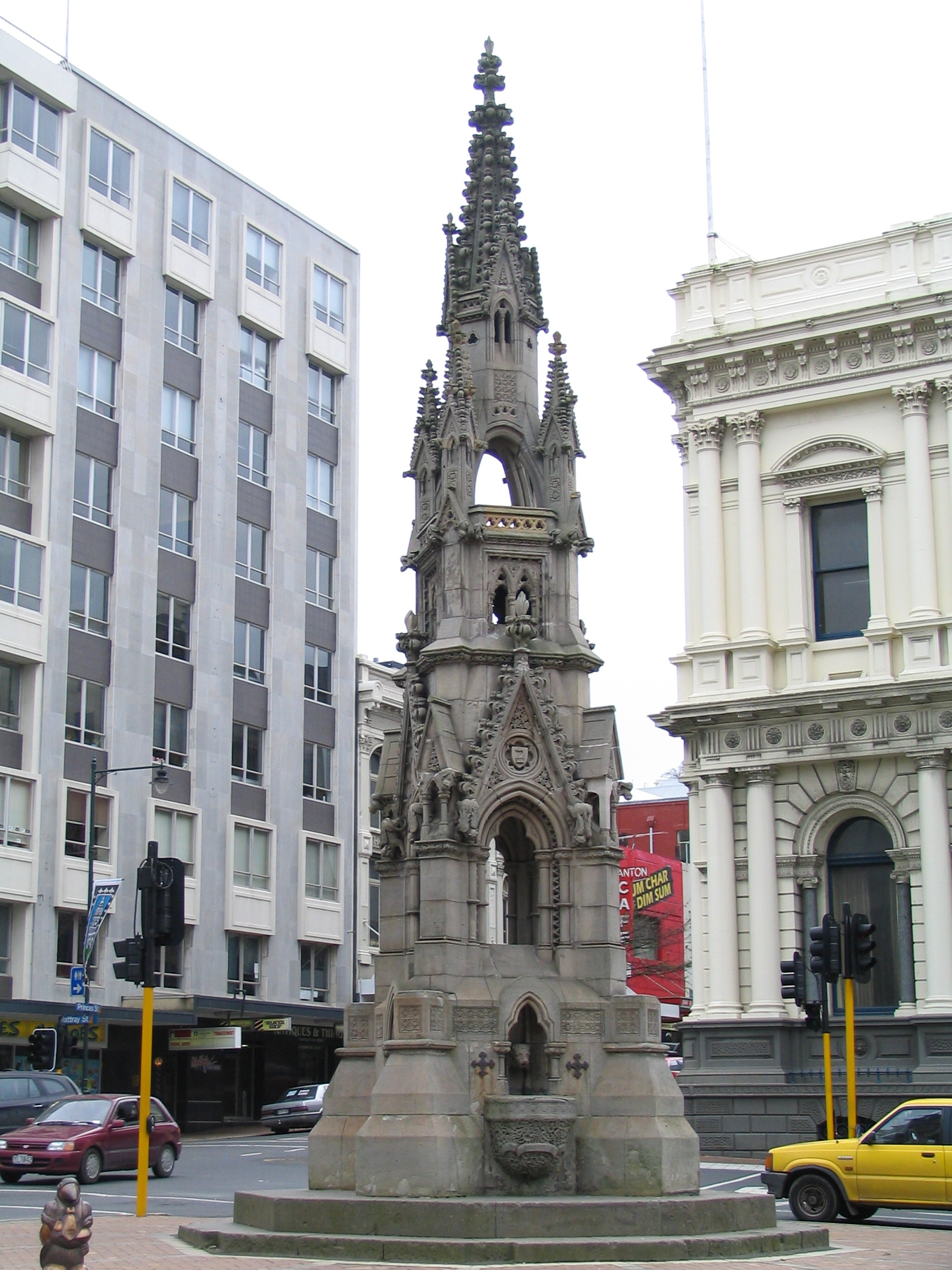 Cargill's Monument, Princes Street, Dunedin, New Zealand, looking north.